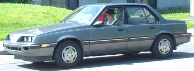 1988.5 Pontiac Sunbird photographed in Montreal, Quebec, Canada.